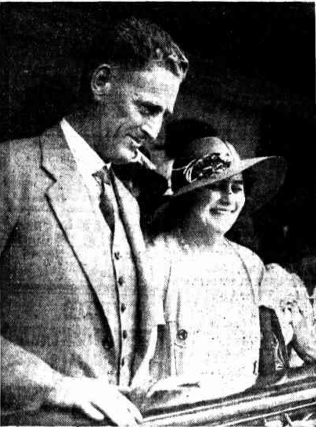 Dr A. D. Mayes, aboard the Orungal , en route to Hobart to attend the Medical Congress. He is accompanied by Mrs Mayes.